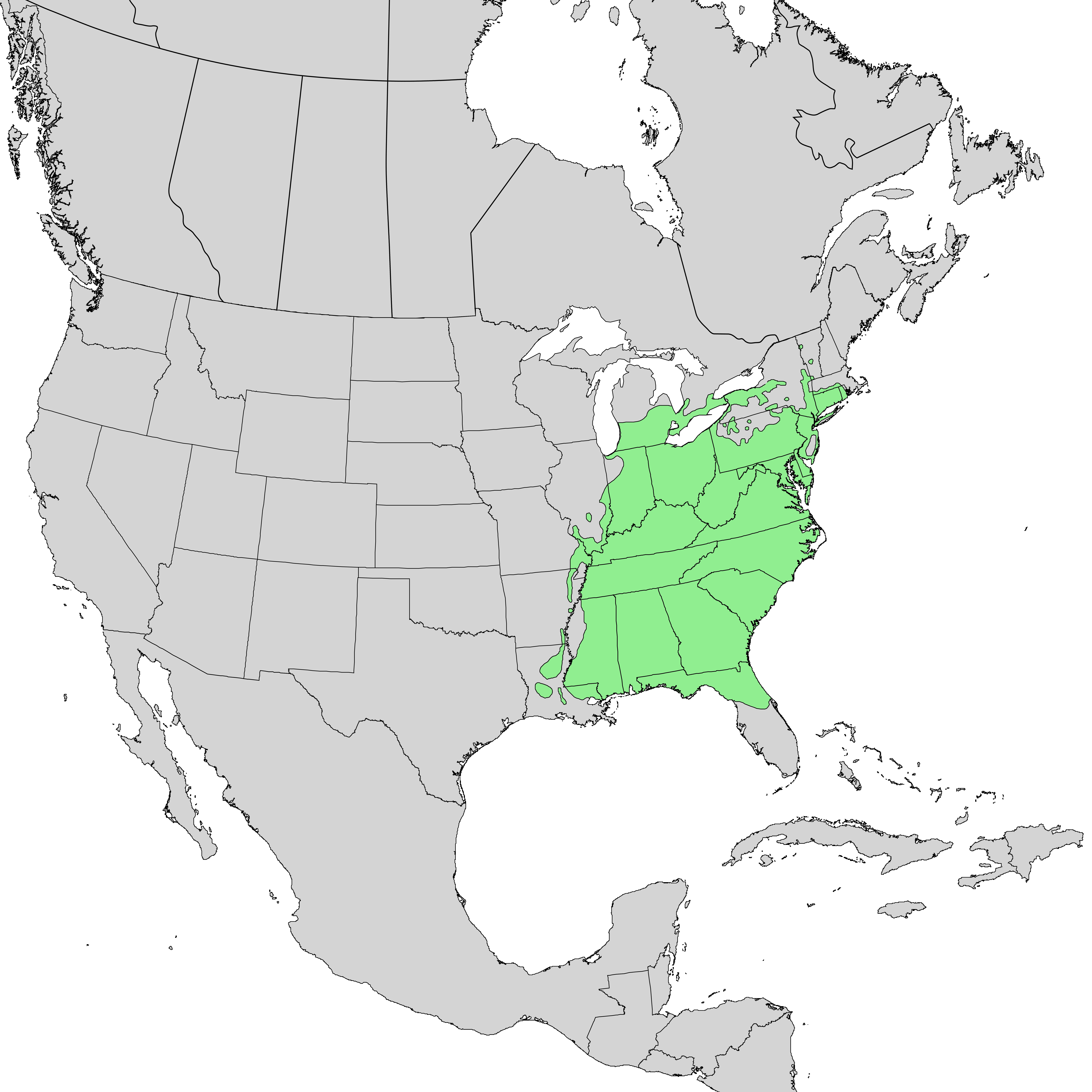 Natural distribution map for Liriodendron tulipifera (tulip poplar)